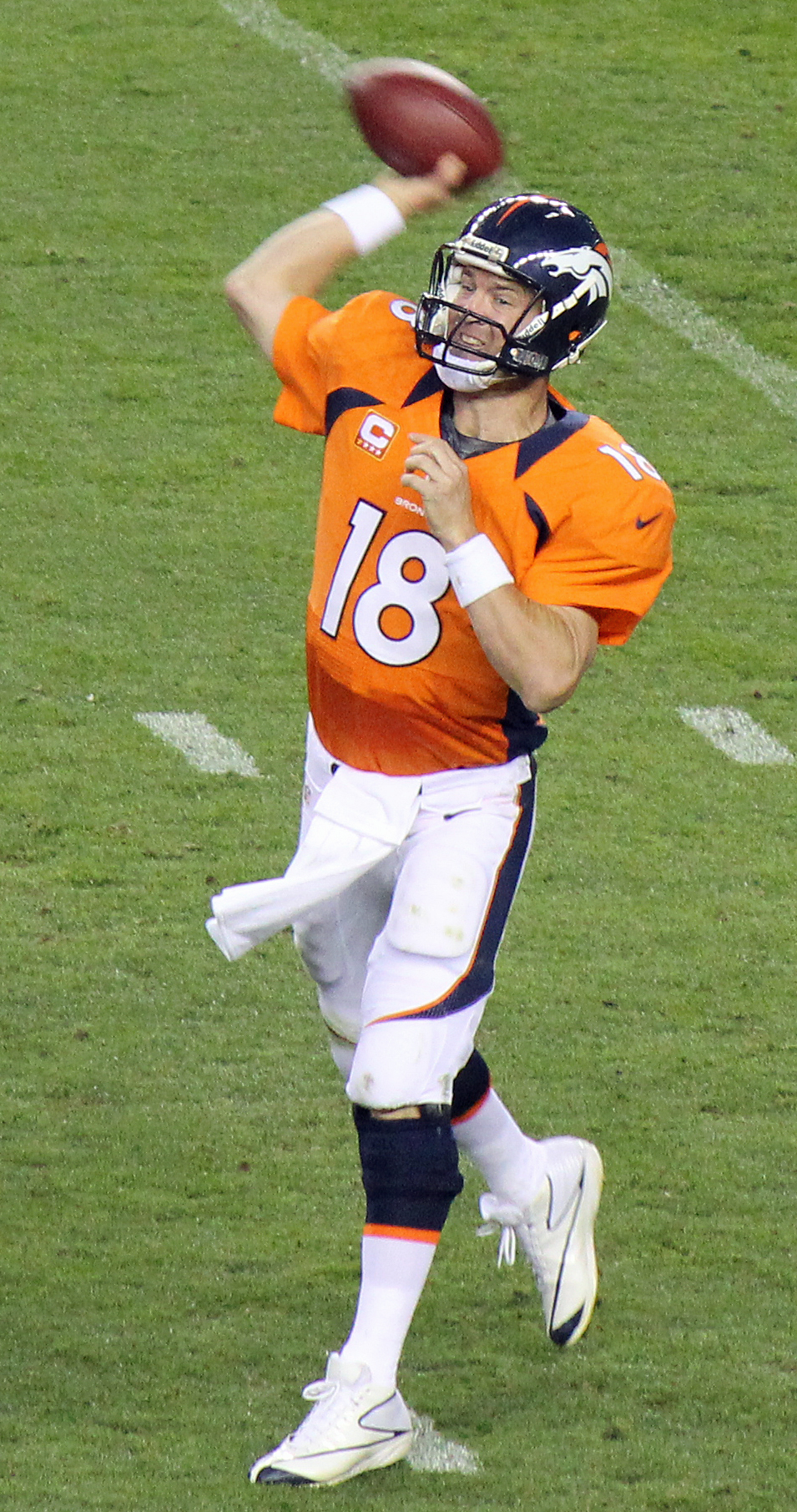 Peyton Manning on September 9, 2012.